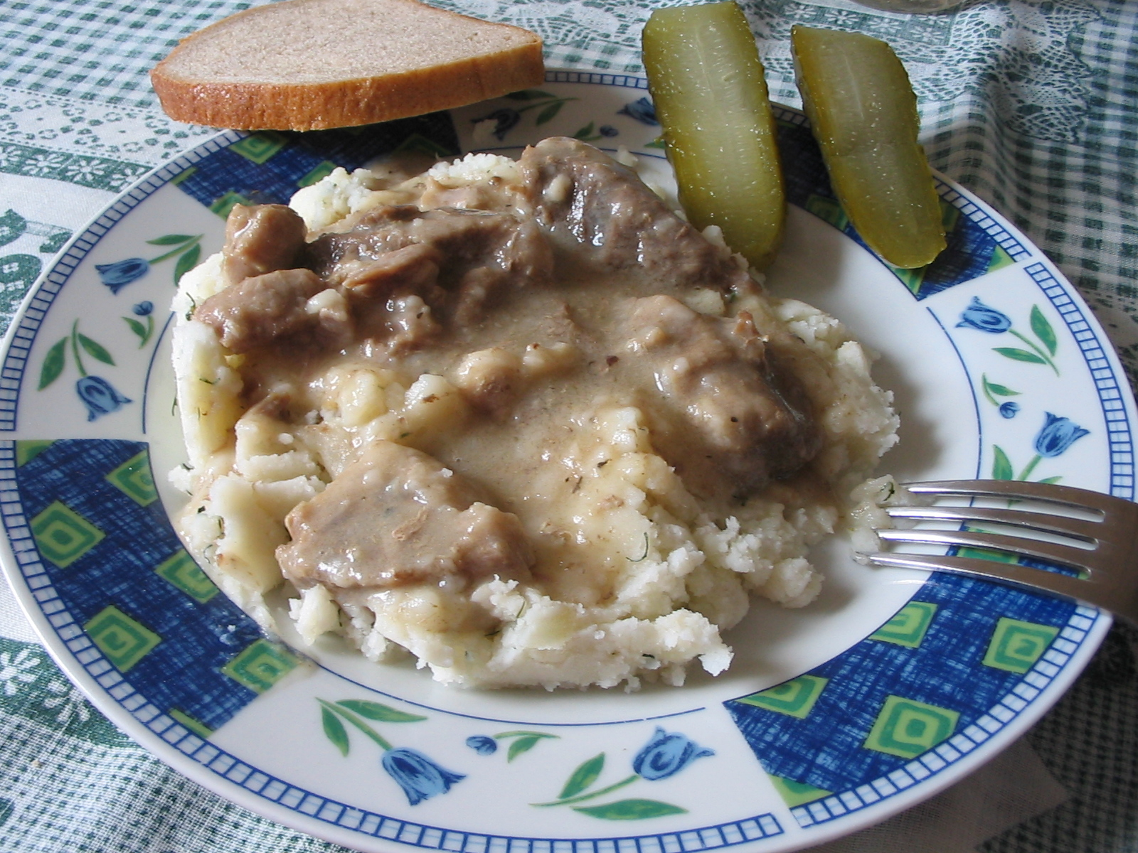 Dushenina - traditional ukrainian meat dish